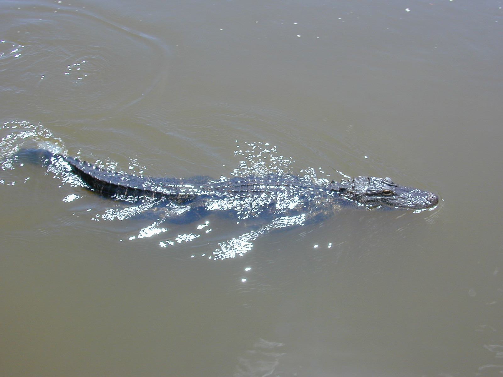 Alligator Photo by Jan Kronsell, 2004